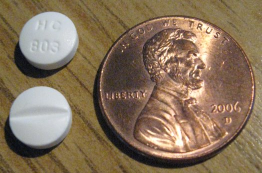 Ganaton (itopride) 50mg Tablets (Abbott), front and back. Front of tablet is imprinted with "HC 803", opposite side of tablet is scored in half.